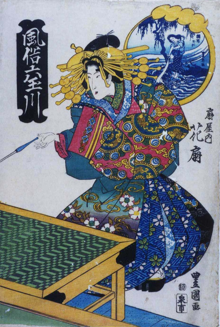 Woodblock print by Utagawa Toyokuni II, series ’Six Jewel rivers’, title ’Hanaōgi from the house Ōgi’